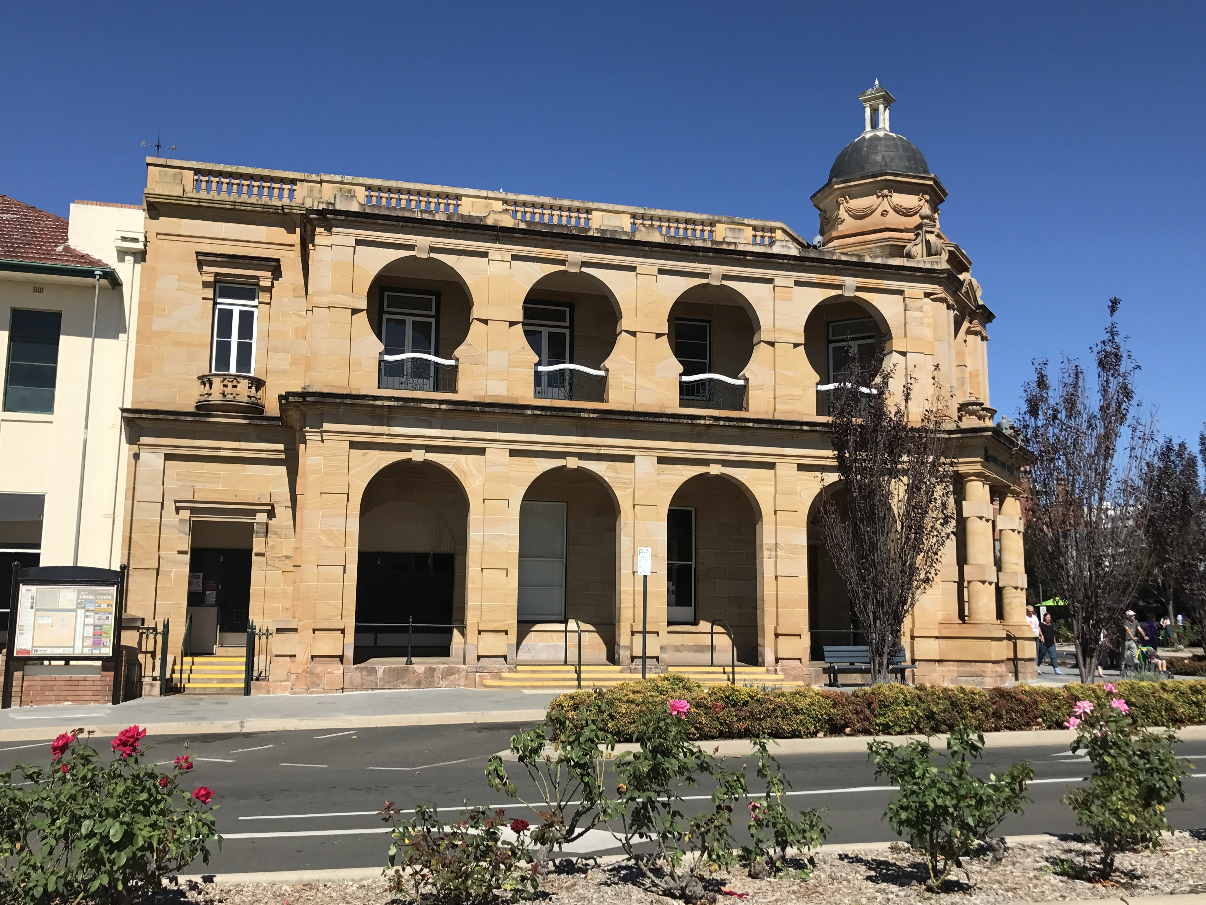 Warwick Post Office, 2017